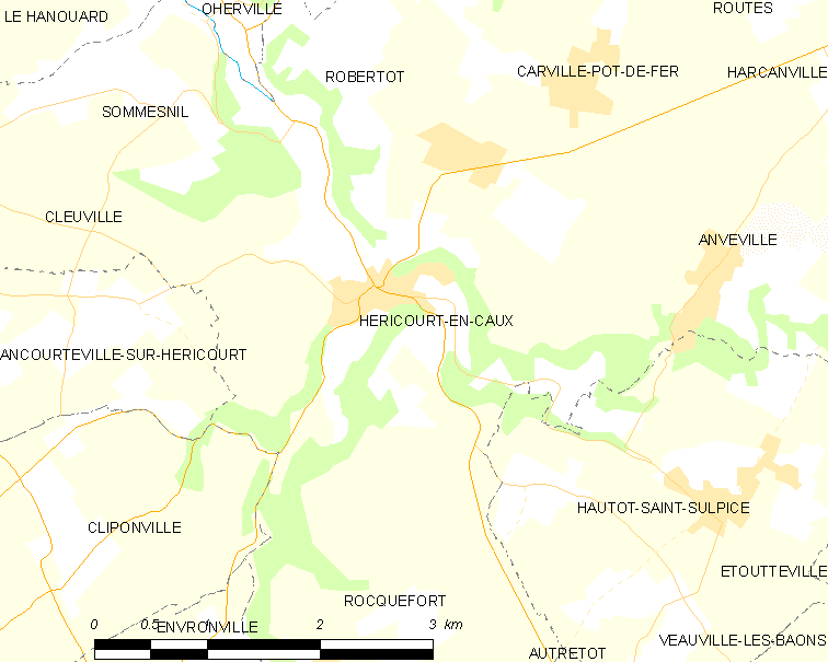 Map of French municipality Héricourt-en-Caux